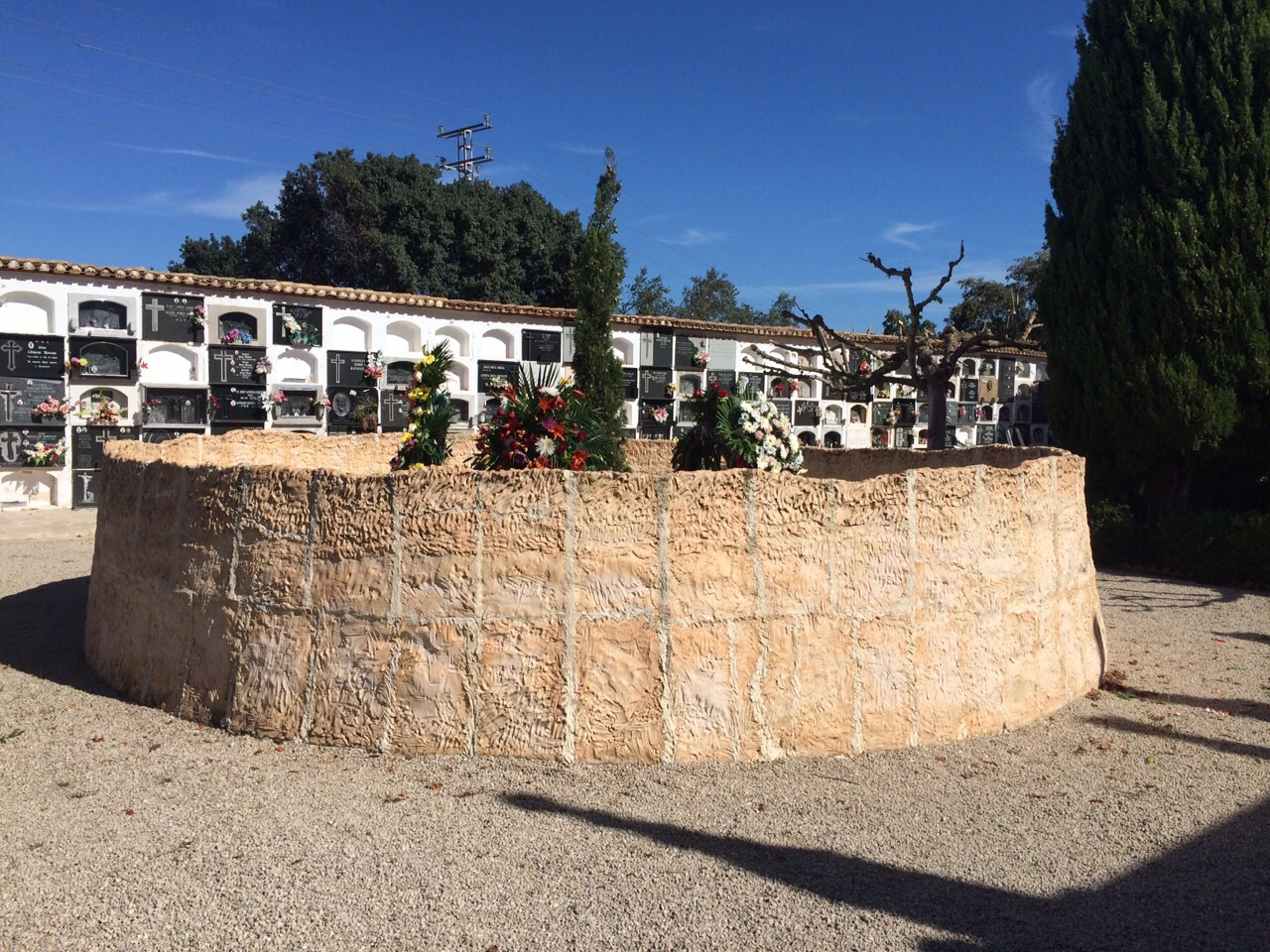 monument by Evarist Navarro on Castelló de Rugat cementery